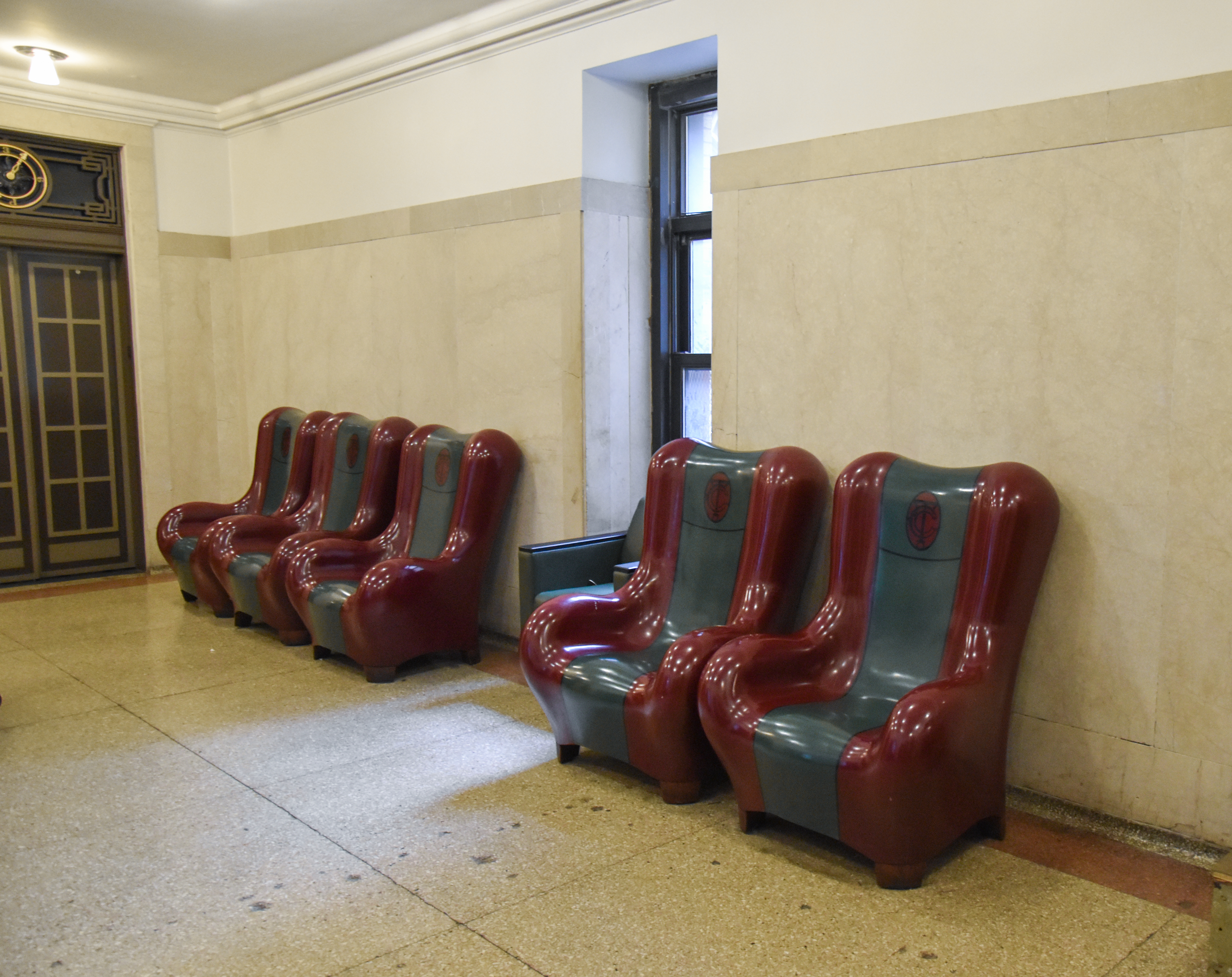 Replica 20th CL wing chairs in New York City's Grand Central Terminal in 2019. Taken as part of a scheduled photoshoot with three other Wikipedians on January 7, 2019.